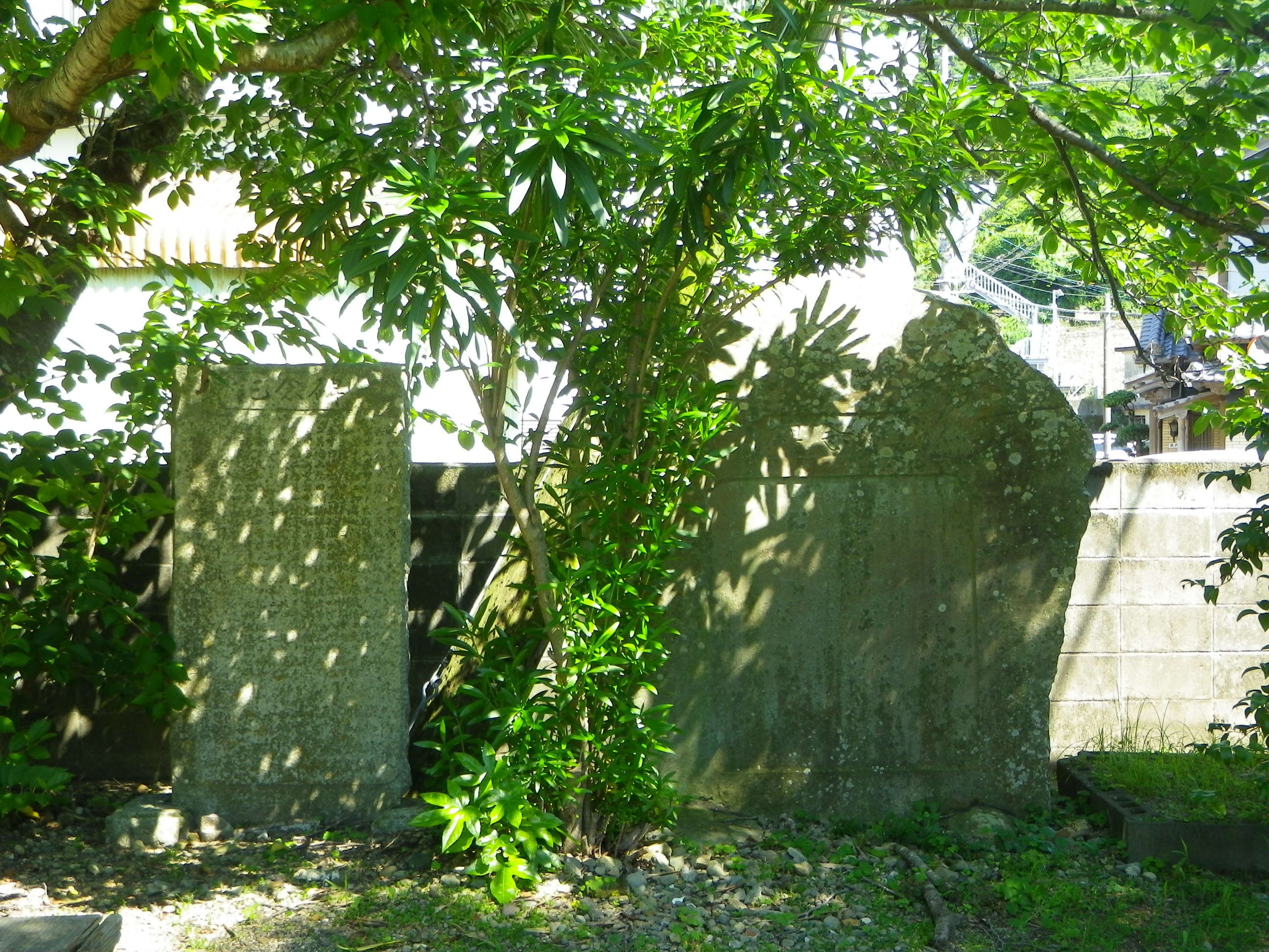 Yuki tsutsumi monument